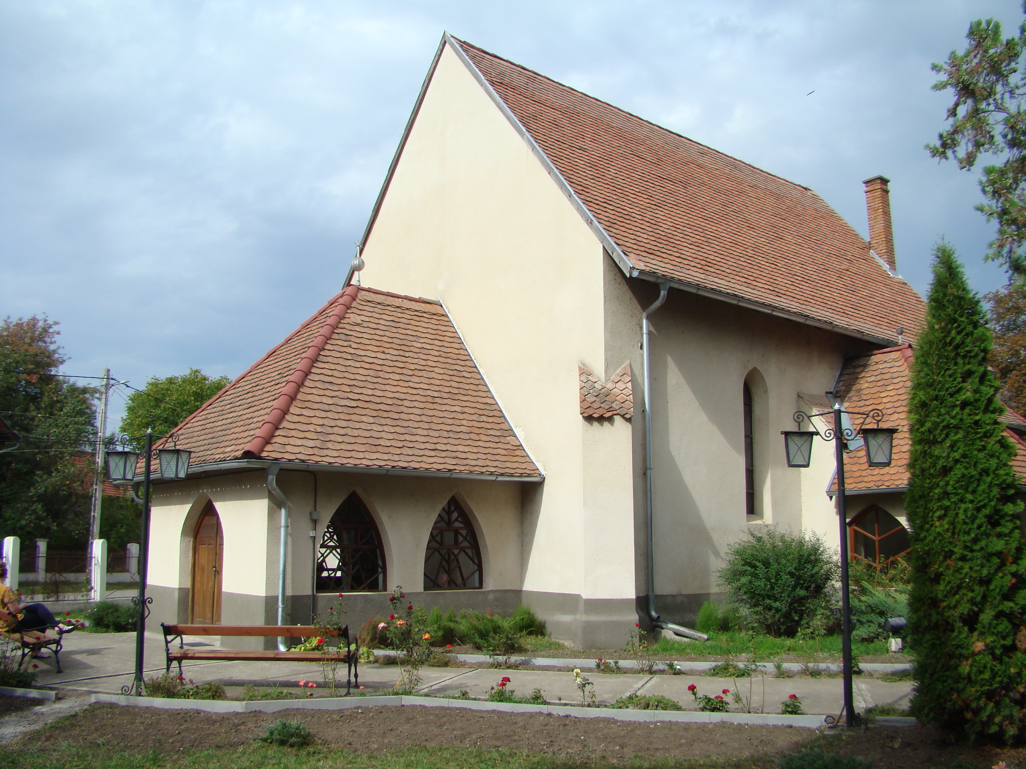 Reformed church in Periș, Mureş county, Romania